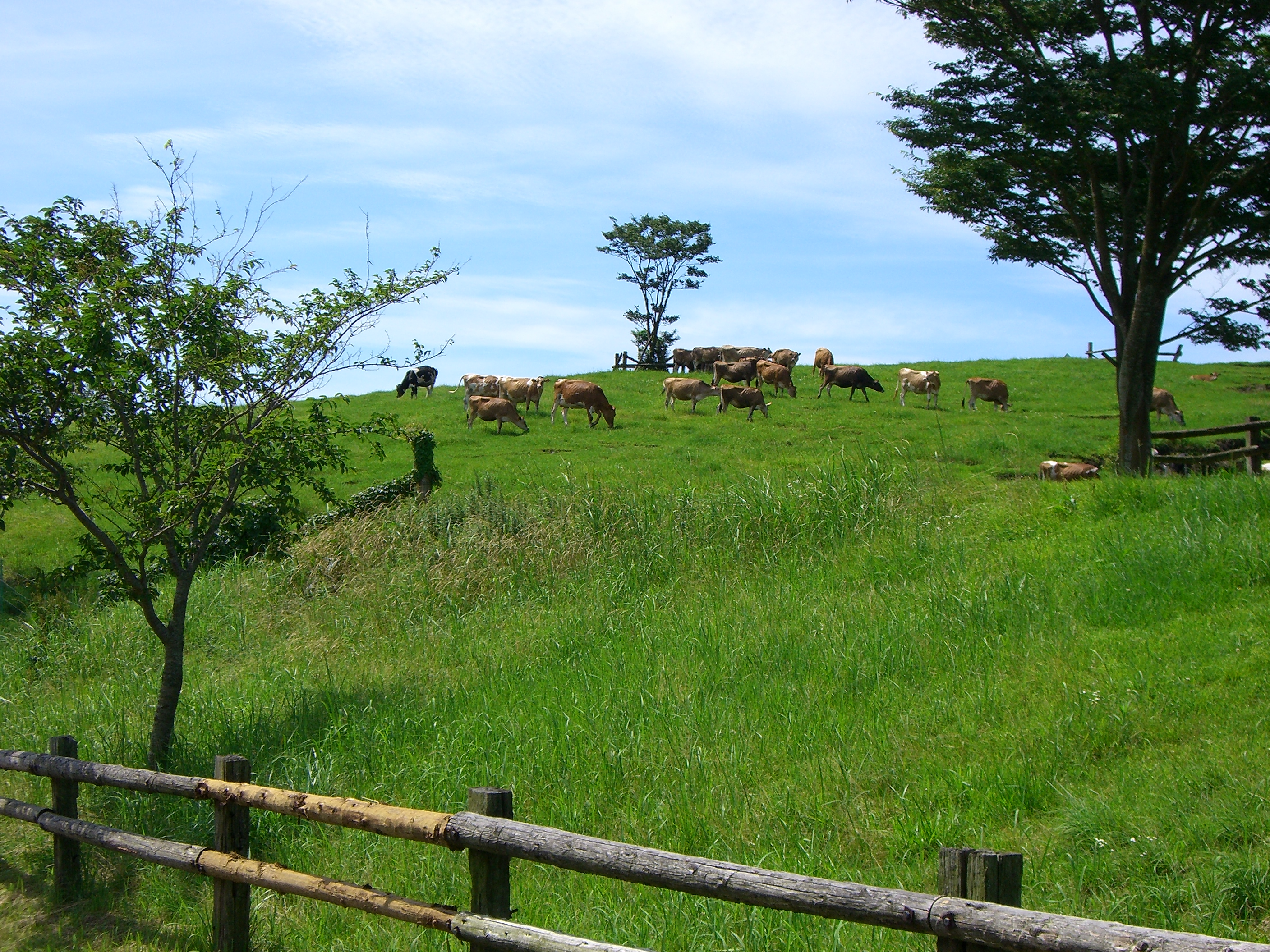 Takachiho Farm in Miyazaki, Japan